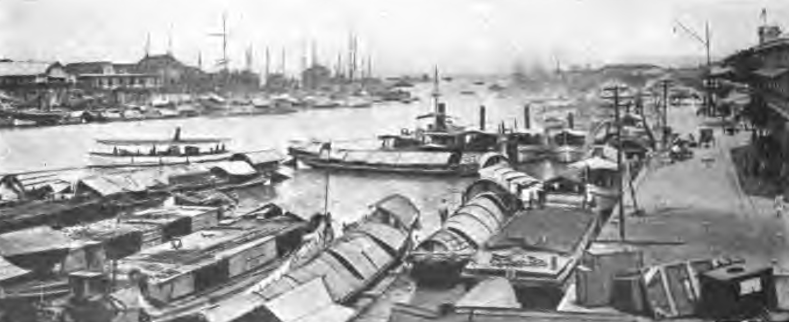 Barges, steamers, and sailing vessels on the Pasig River in Manila (c.1917)